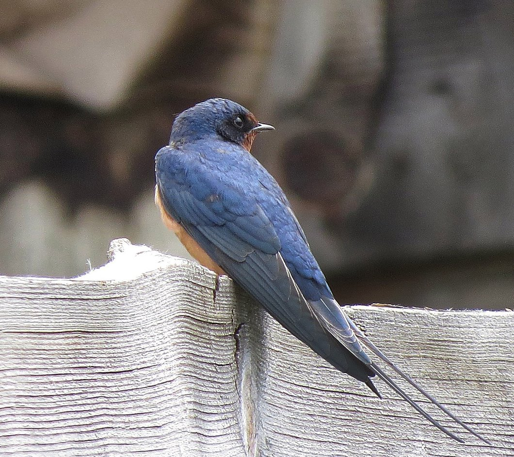 Swallow in Eastern Siberia